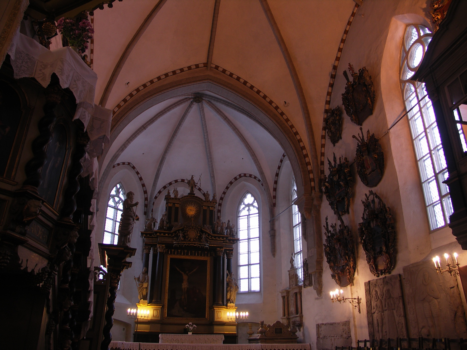 Dome Church (Toomkirik) interior, Tallinn, Estonia.